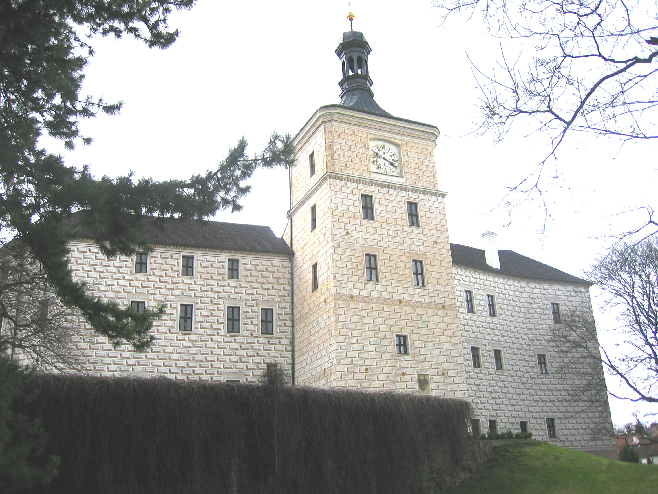 Březnice - Rennaissance Castle in Czech Republic, southern part of Central Bohemian Region